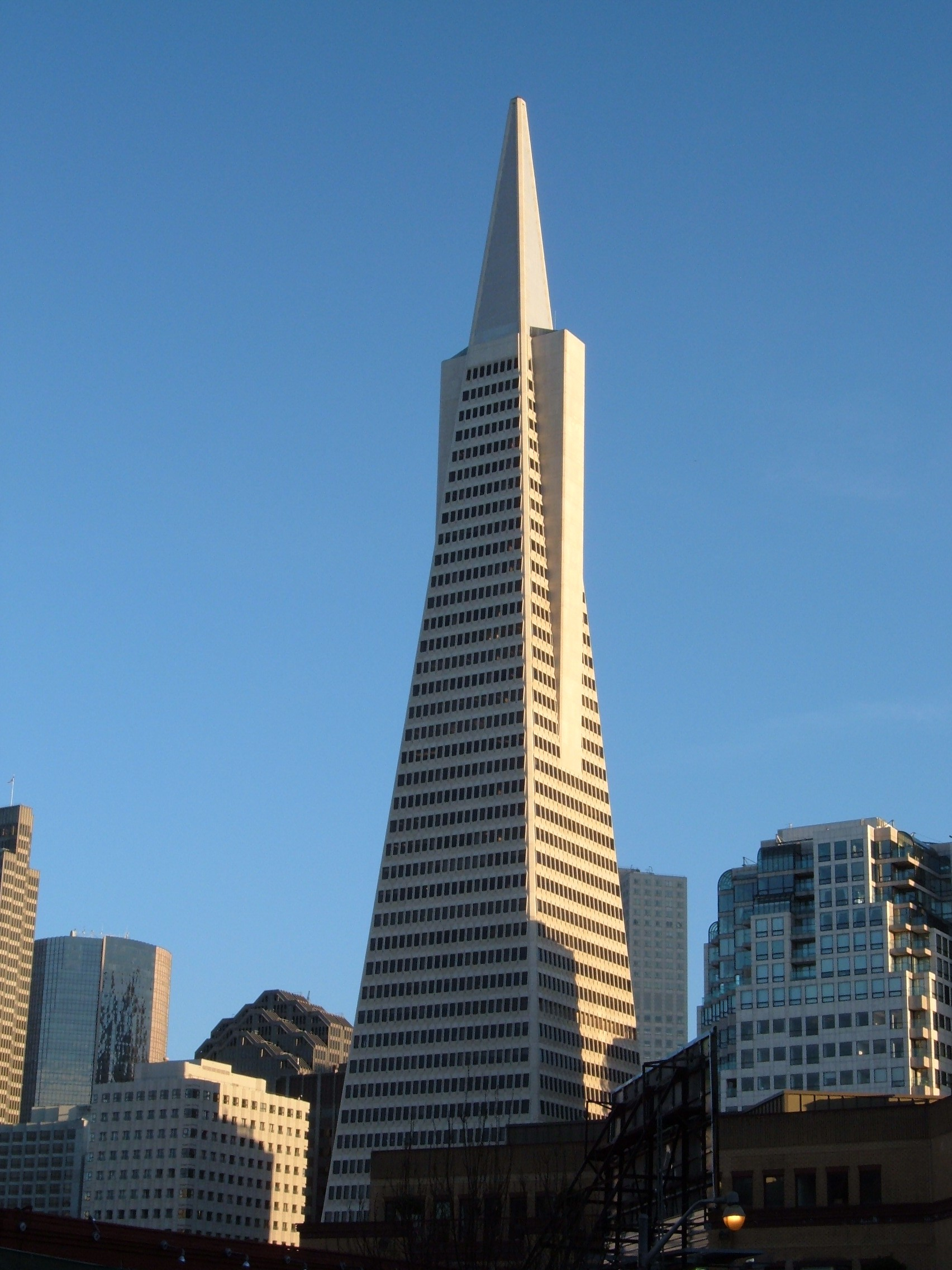 The Transamerica Pyramid in San Francisco, as seen from Columbus Street.